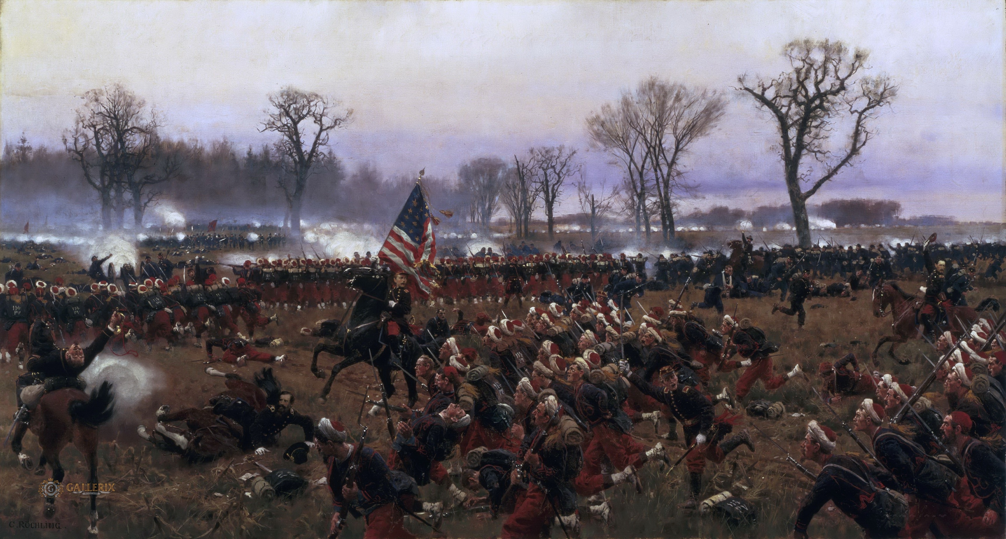 During the Battle of Fredericksburg (December 13th, 1862) a crisis occured on the Union side. When the brigade of General John C. Robinson assaulted the Confederate position on Prospect Hill, a counter attack threatened the Union guns while the generals horse was killed, pinning him to the ground. In this moment of confusion, colonel Charles H. T. Collis rode to the front of his 114th Pennsylvania Infantry, took the regiments colors, rallied its men and led another attack. This action not only saved the guns but also won Collis the Medal of Honor. Years later Collis commissioned the German painter Carl Röchling to depict this scene in a painting. 83.8 x 149.9 cm, Oil on canvas